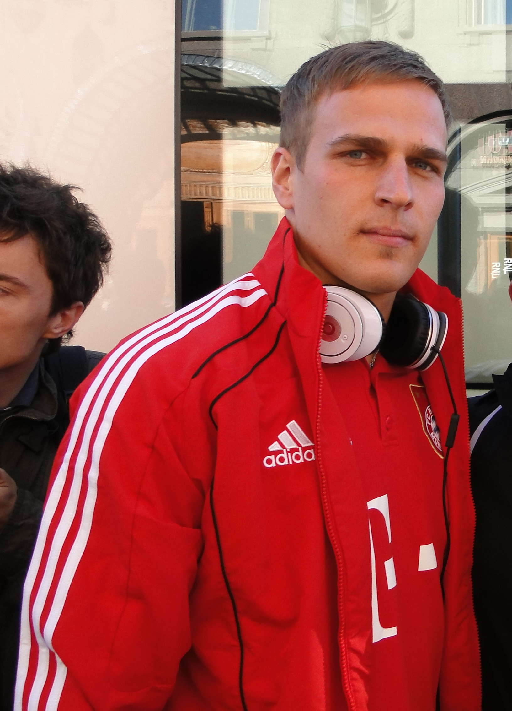 Rouven Sattelmaier in Saint-Peterburg, 18 May 2011. Before the friendly game with Zenit Saint-Petersburg, near Astoria hotel, during the brief meeting with a fans.